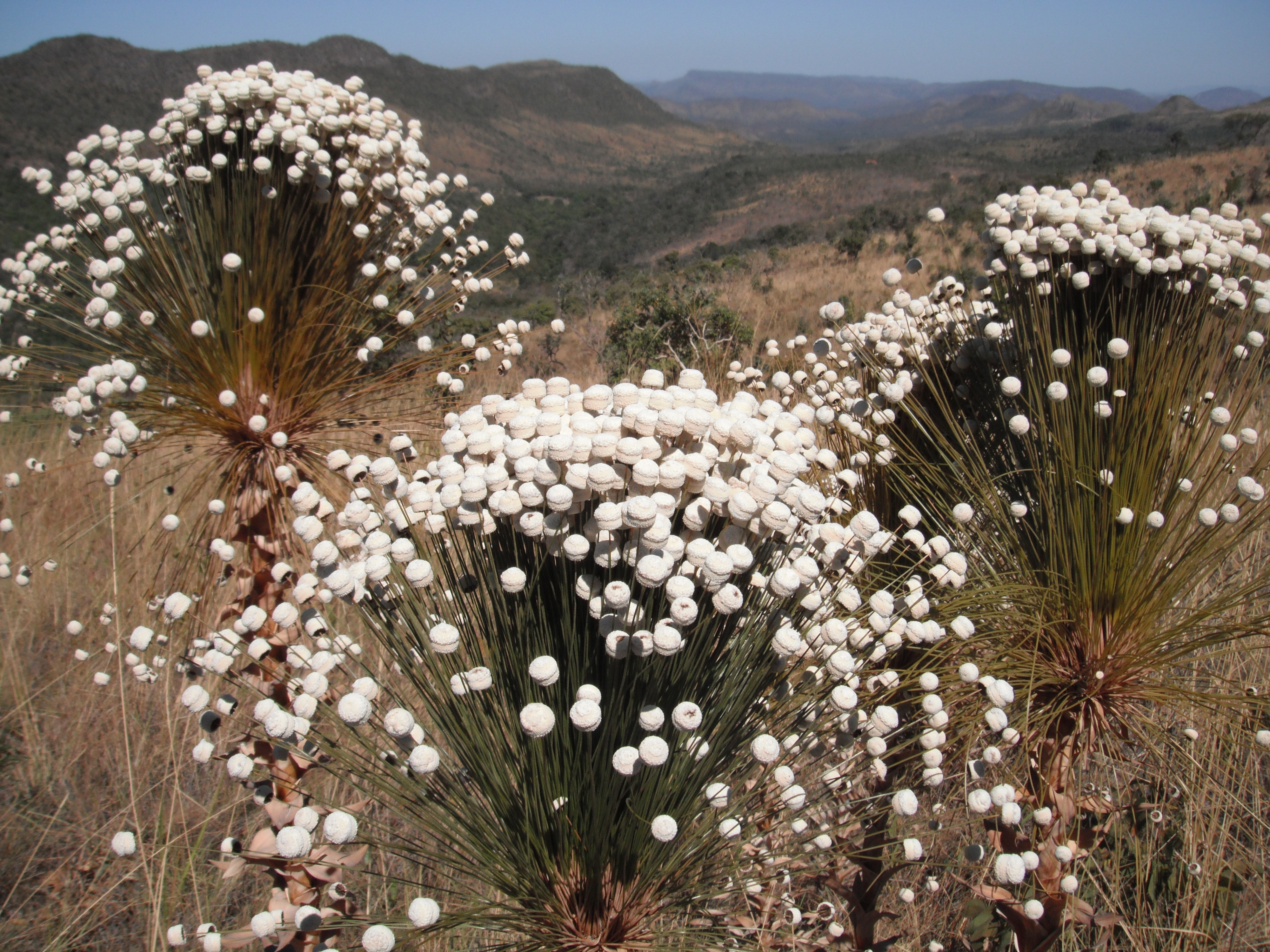 Paepalanthus chiquitensis a conspicous plant of Ericaulaceae family, that lives in Cerrado vegetation of Chapada dos Veadeiros,Goiás state, central Brazil.